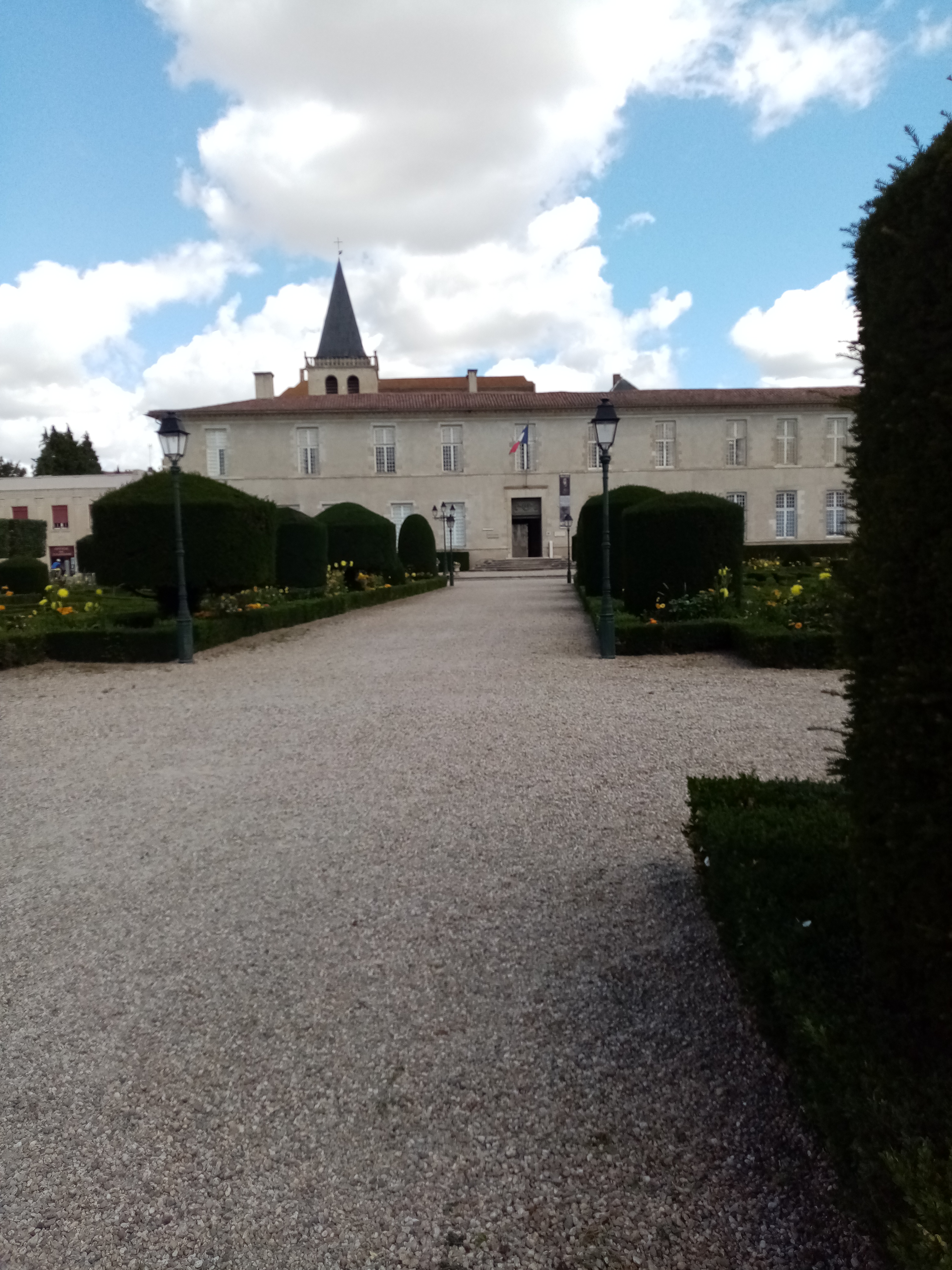 Évêché du XVIIe siècle à Castres